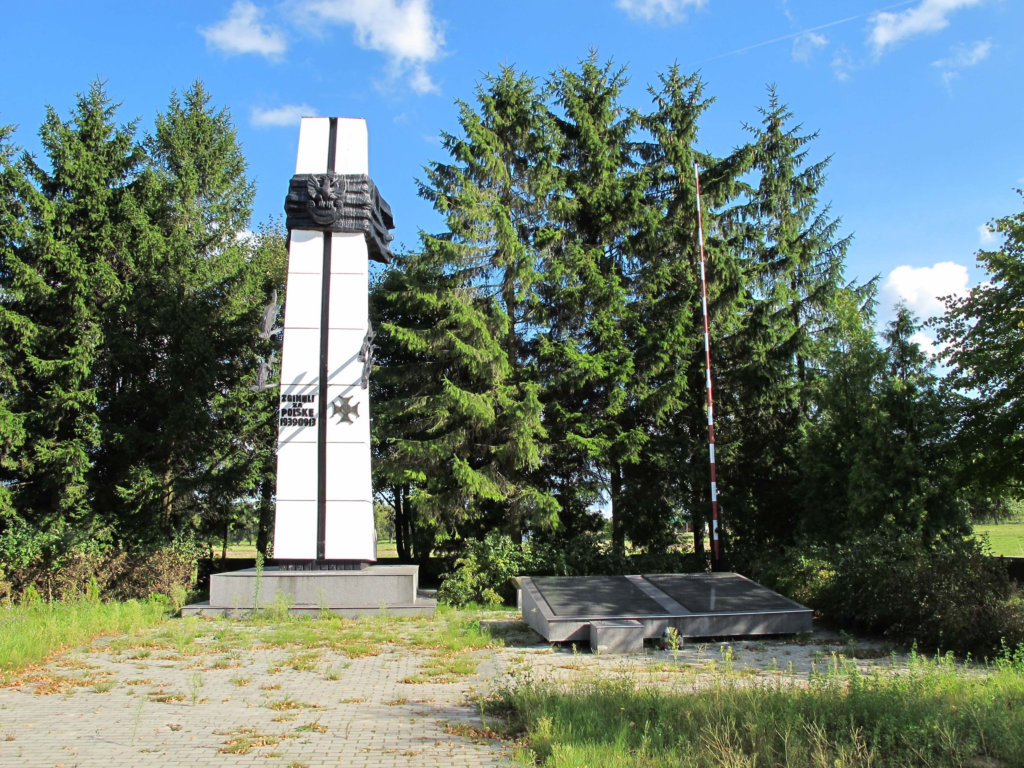 Battle of Olszewo of 1939 victims monunument in Olszewo village, gmina Brańsk, podlaskie, Poland